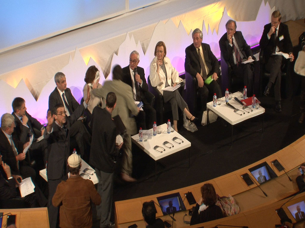 Pie smash to president of Navarre Yolanda Barcina, protesting against High Speed Railway across the Pyrenees, Toulouse, France